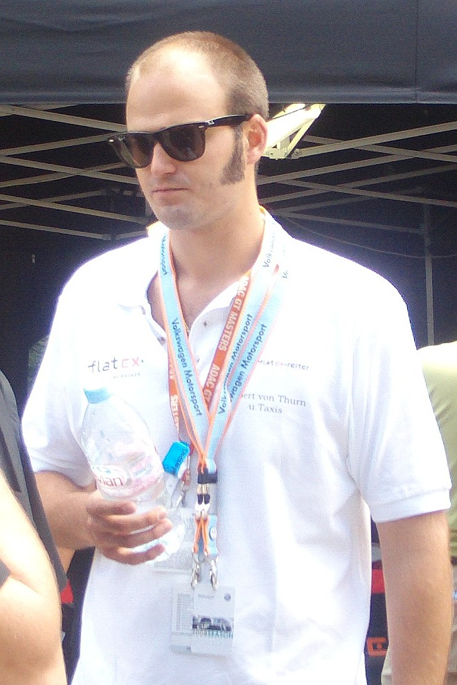 Albert von Thurn und Taxis at the 2008 Norisring Race